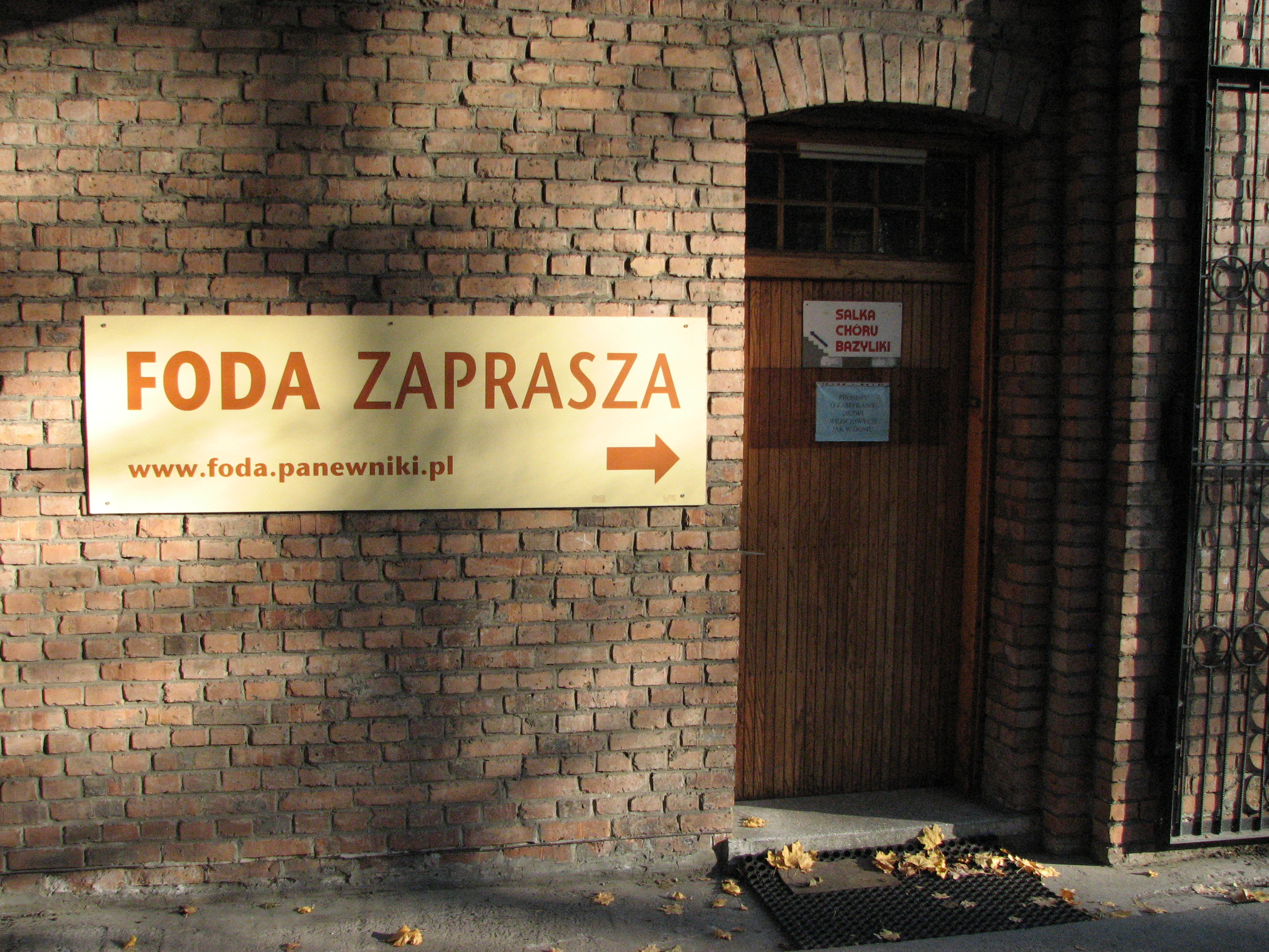 The entrance to the Academic Chaplaincy in Katowice Panewniki (Franciscan monastery)